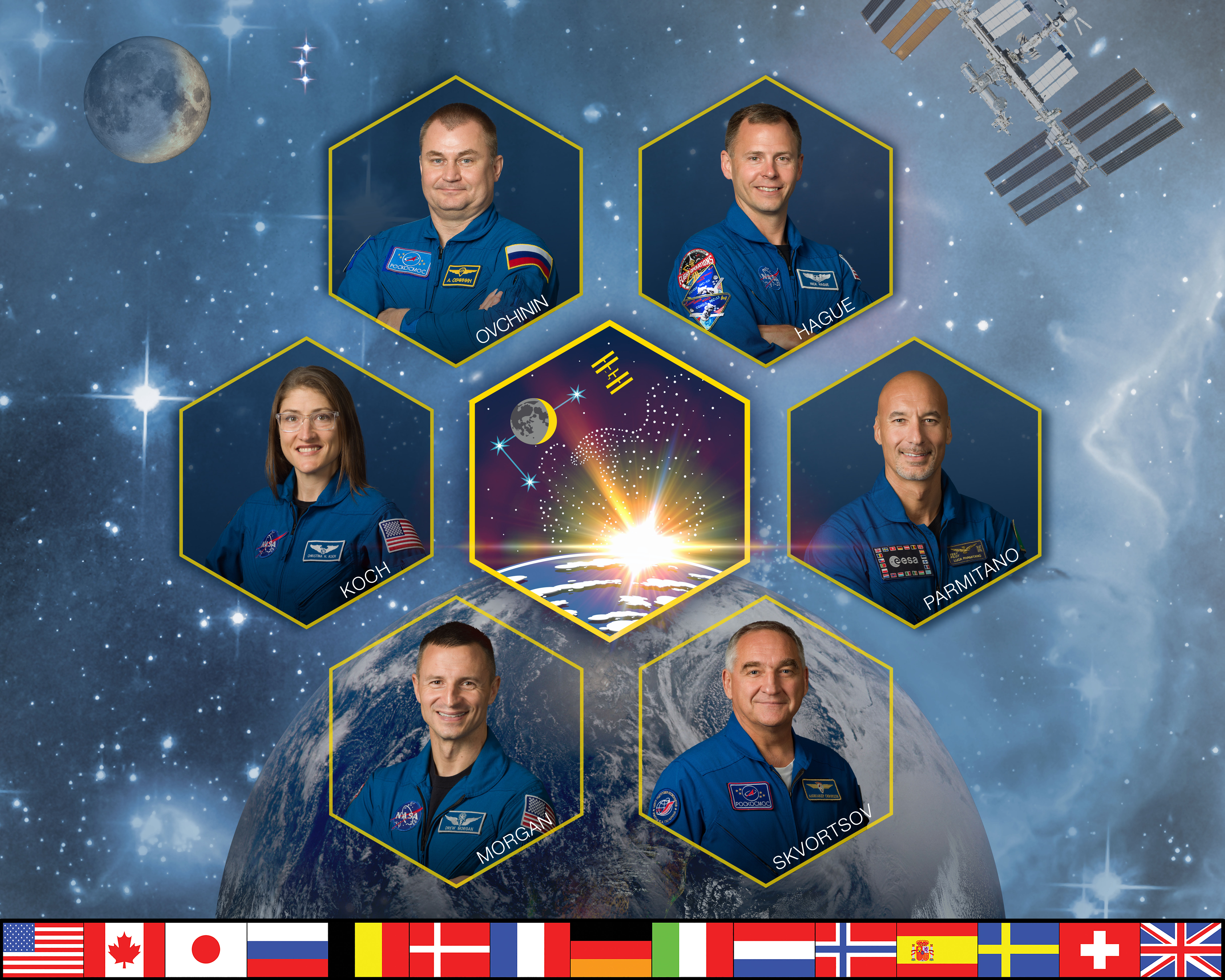 The official Expedition 60 crew portrait with (clockwise from top right) astronauts Nick Hague of NASA and Luca Parmitano of ESA (European Space Agency), Roscosmos cosmonaut Alexander Skvortsov, NASA astronauts Drew Morgan and Christina Koch and Roscosmos cosmonaut Alexey Ovchinin.